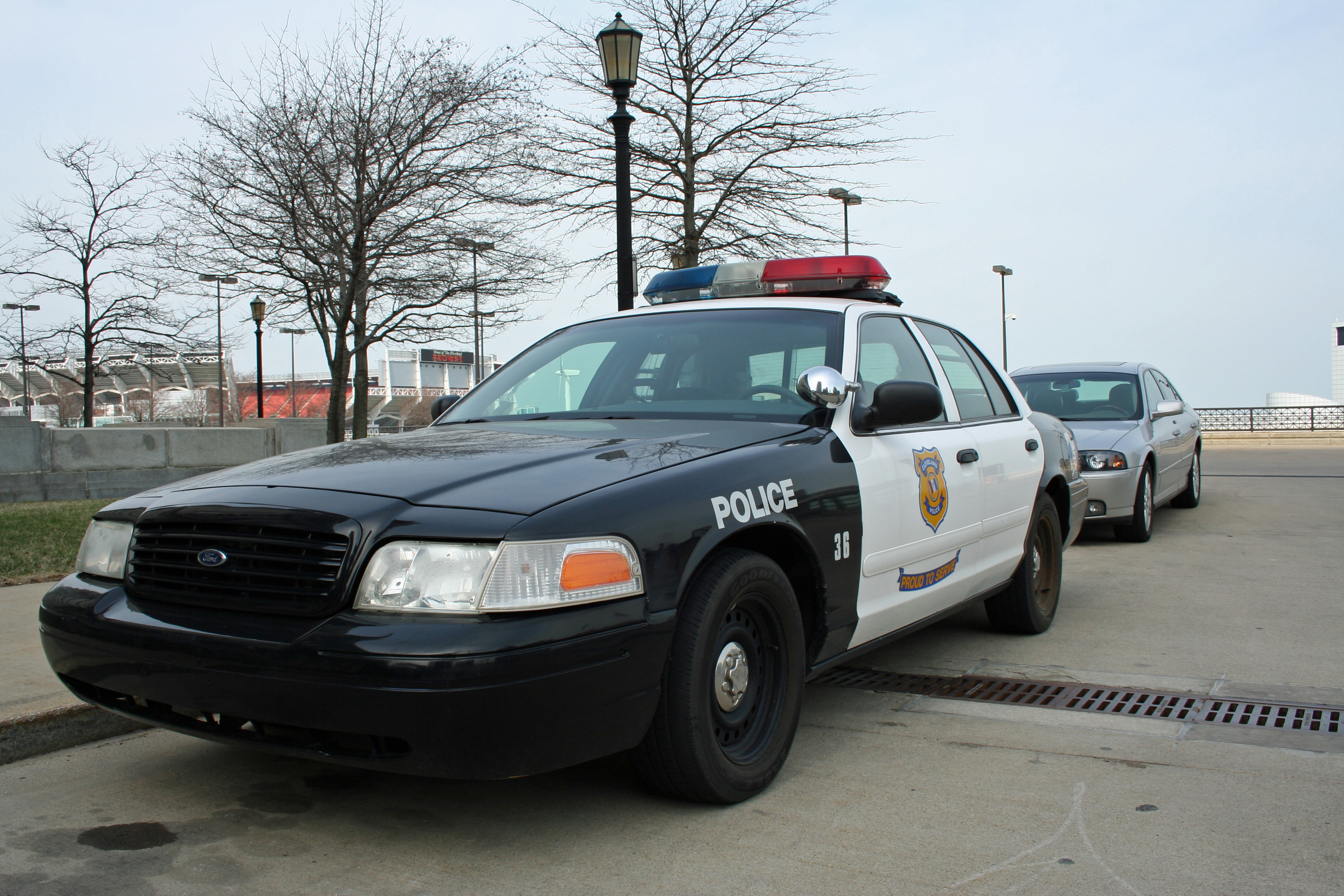 A Cleveland police patrol car parked outside the City Hall.